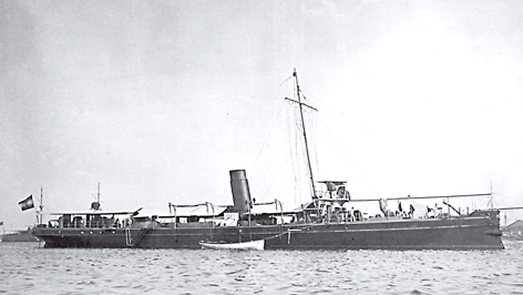 Austro-Hungarian gunboat (SMS Planet) - copyright expired